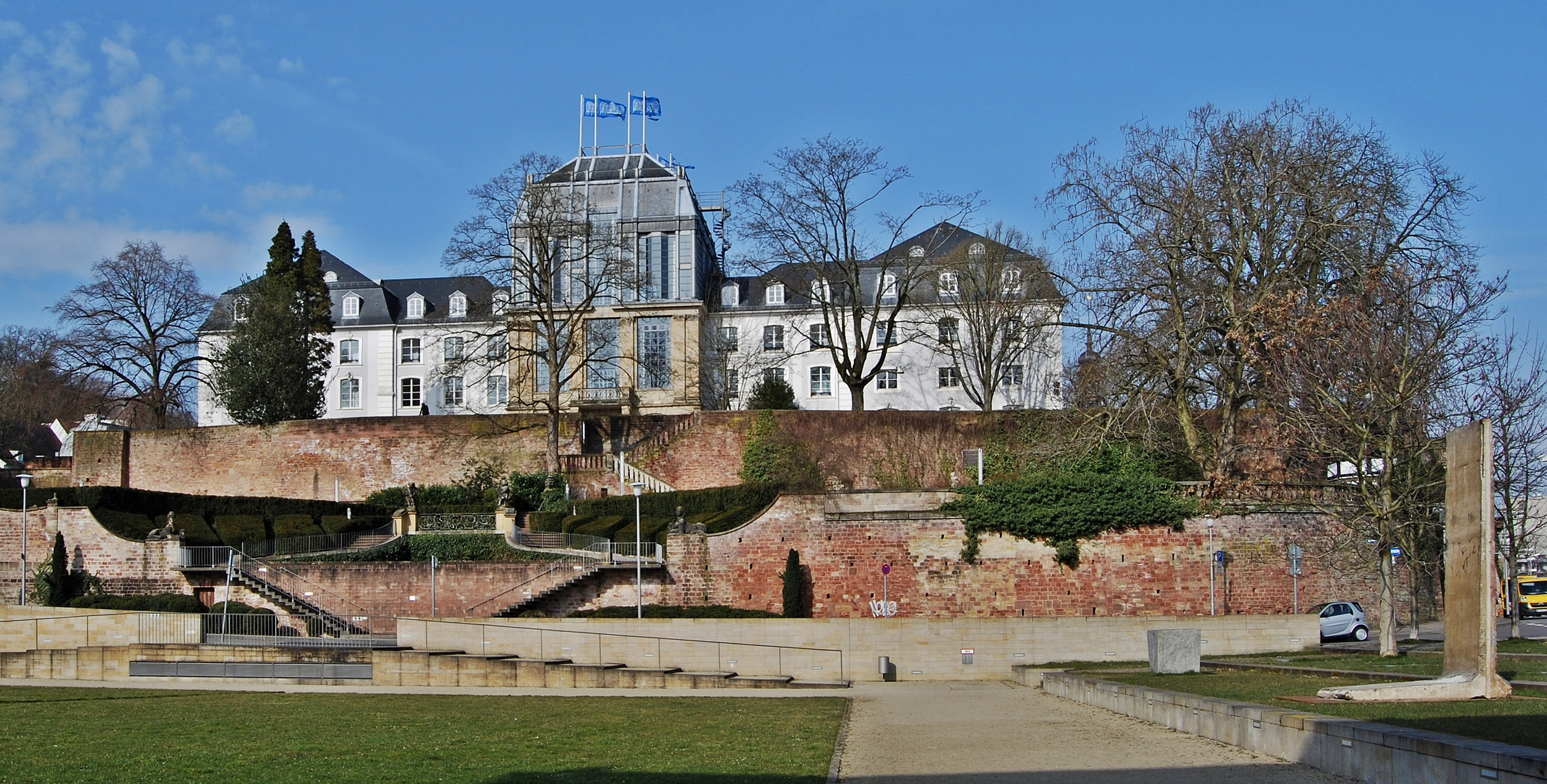 Saarbrücken Castle seen from Landtag of Saarland.